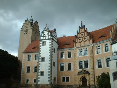 The castle in Strehla, Germany.